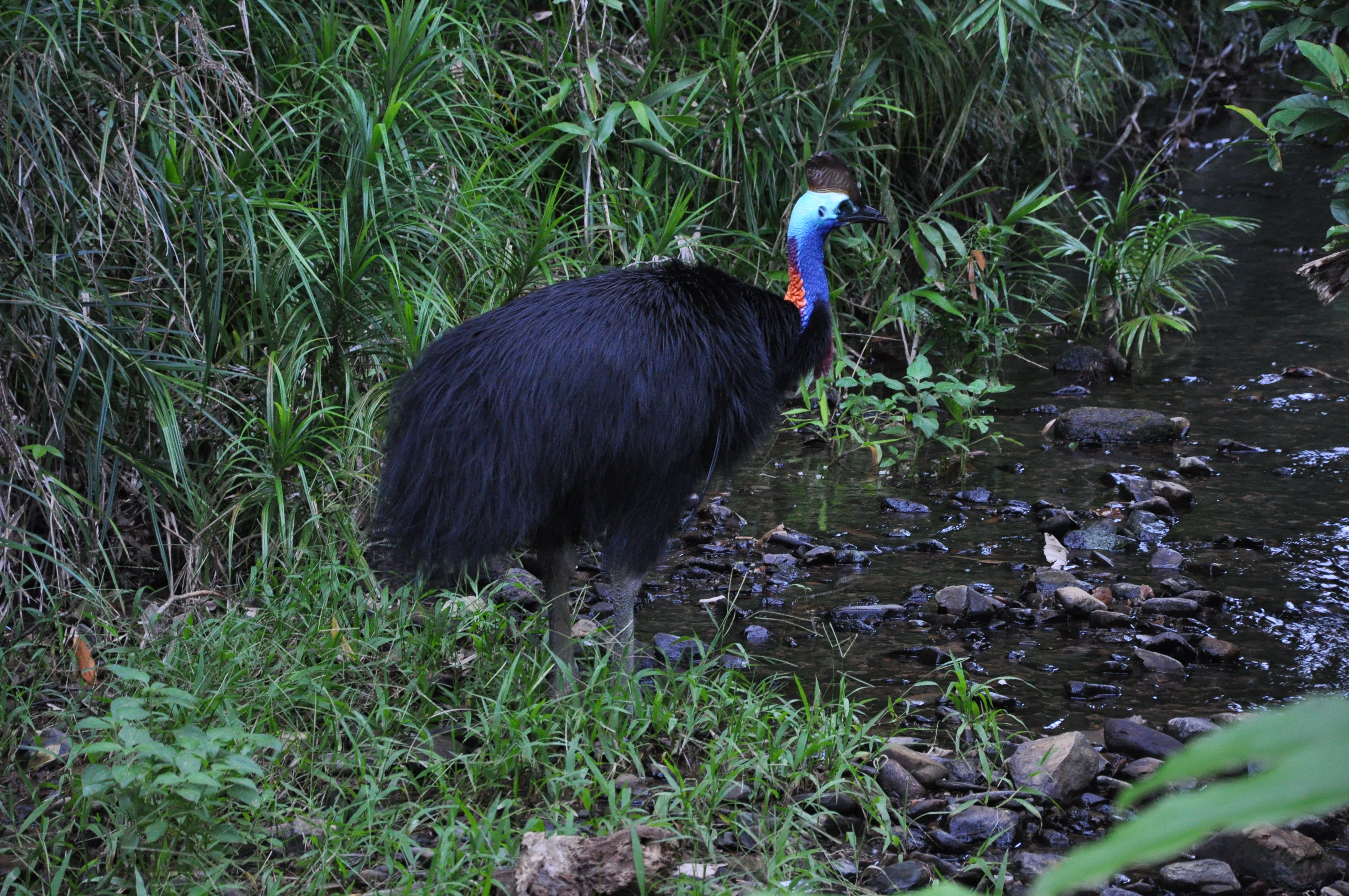 Cassowary (Casuarius casuarius) seen in Cape Tribulation, Australia.